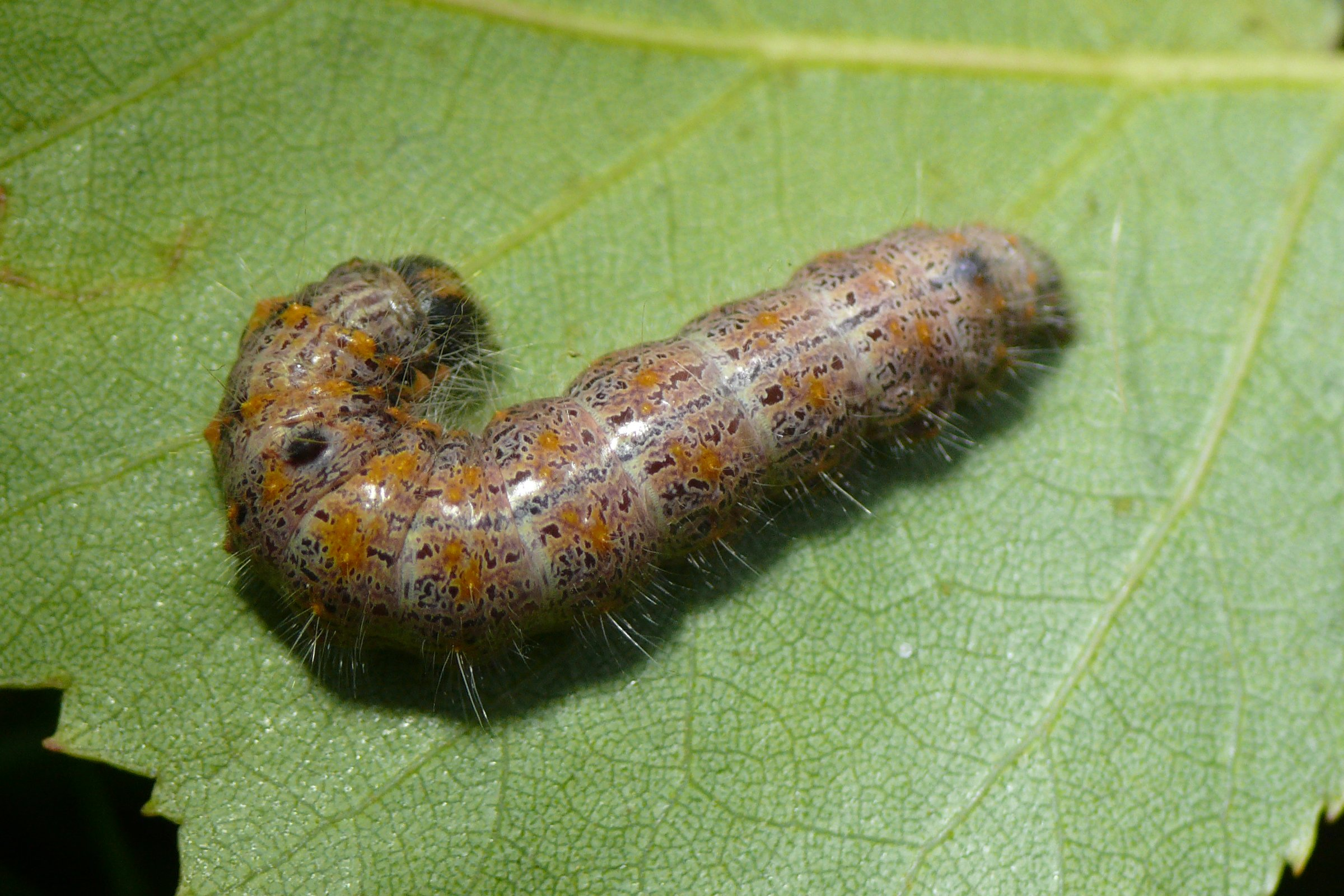 Caterpillar of the Small Chocolate-tip (Clostera pigra)